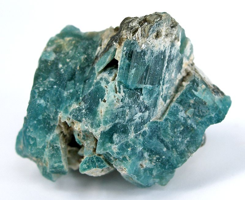 Grandidierite Locality: Cap Andrahomana, Ranopiso Commune, Taolañaro (Fort Dauphin) District, Anosy (Fort Dauphin) Region, Tuléar (Toliara) Province, Madagascar (Locality at ) Size: 2.5 x 2.0 x 1.6 cm. Sharply crystallized examples of this species are very rare. This is the type locality, from which specimens were recovered around 1900 and identified in 1902. This is a rare magnesium, aluminum oxide, borate silicate and here occurs in lustrous, slightly translucent, sky blue crystals, to 1.5 cm across. This ENTIRE CLUSTER is composed of sharp tabular crystals, although with some contacts at the edges.